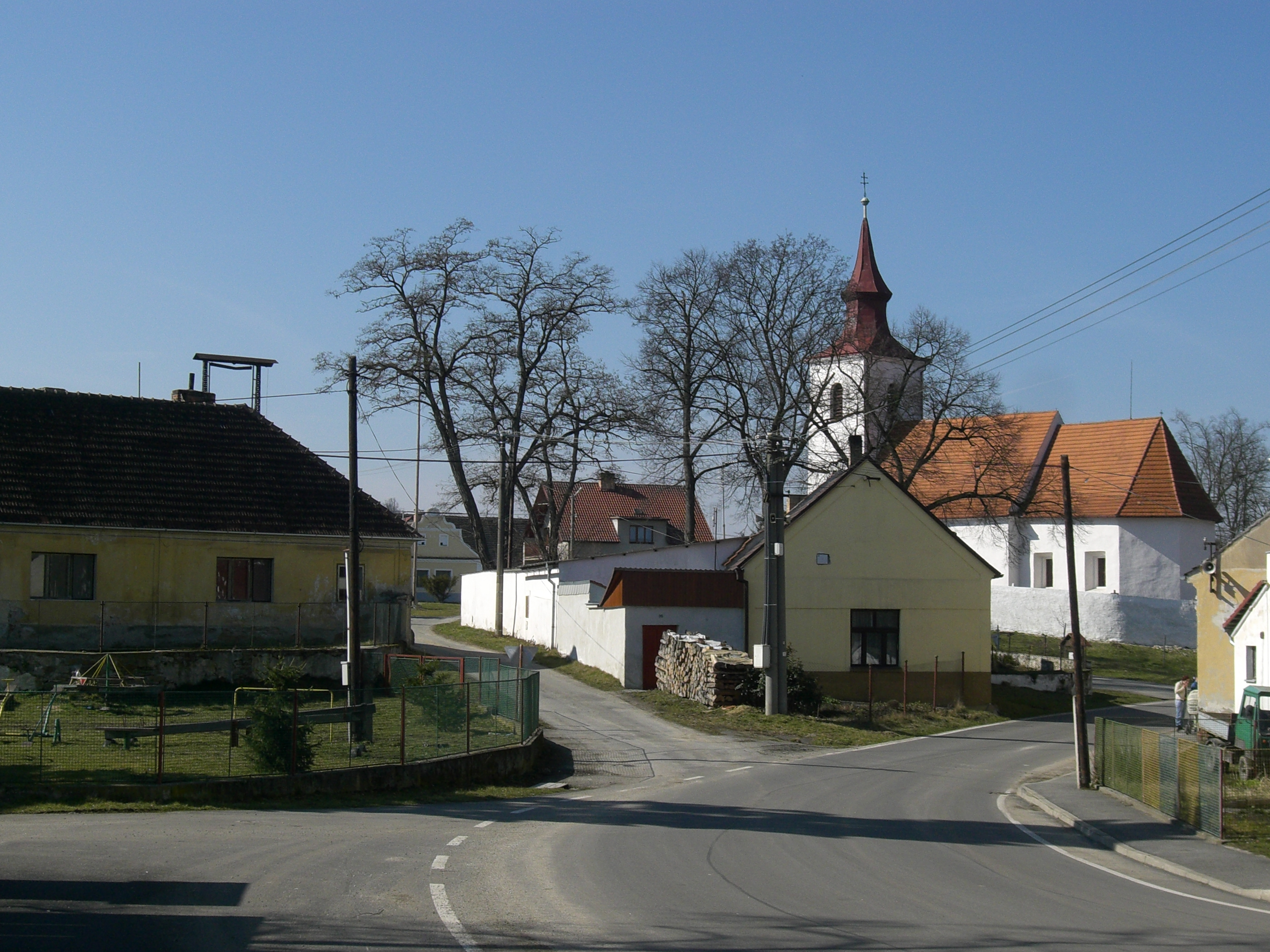 Heřmaň village in Písek district, Czech Republic.